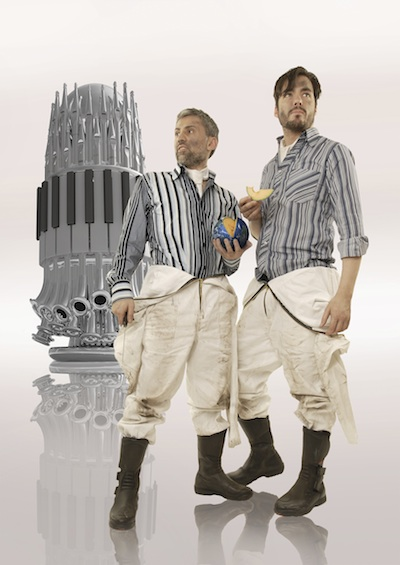 Monosurround in front of the OSO